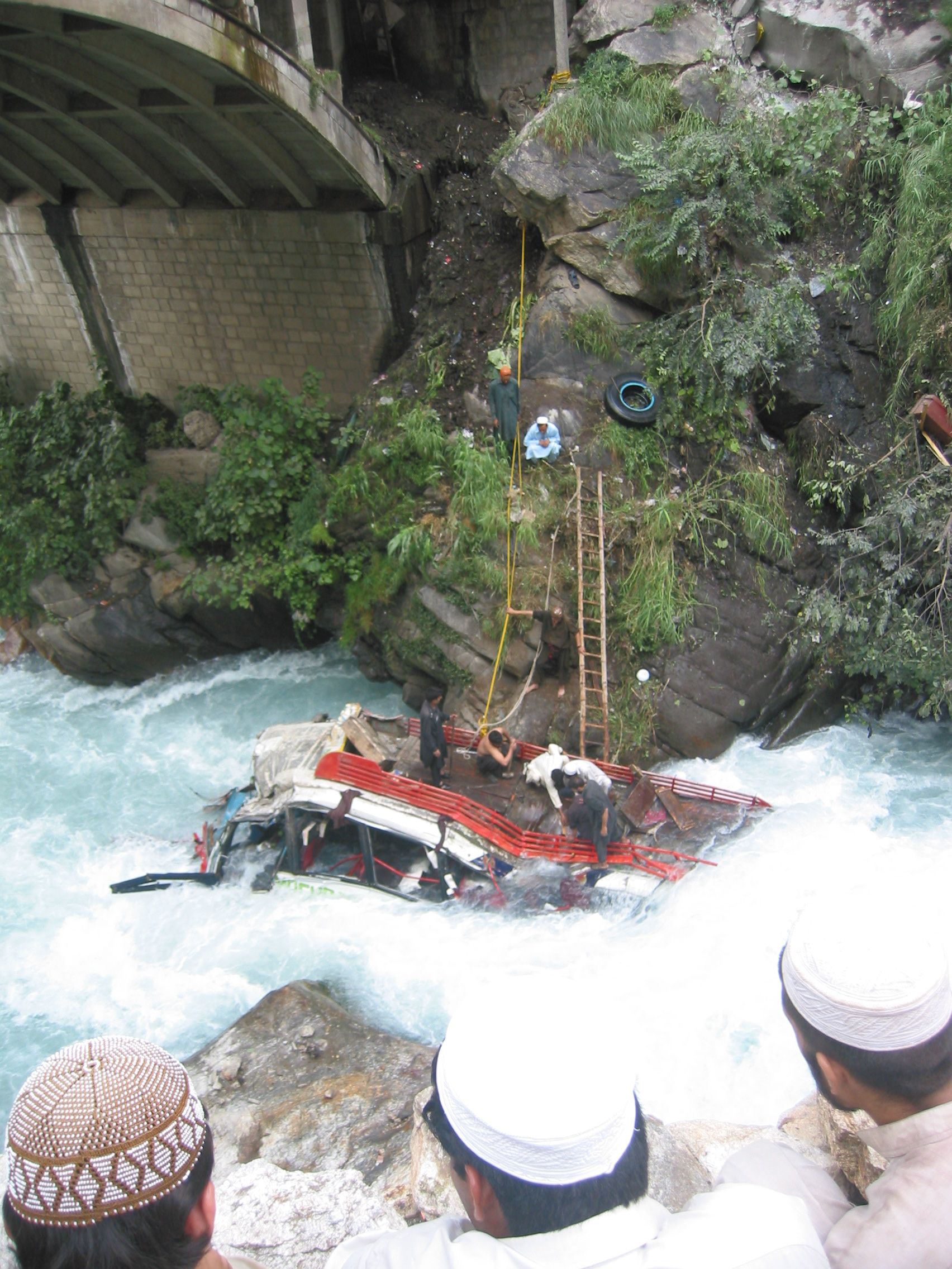 The road to Gilgit is impressive and memorable but dangerous. This photograph shows a bus that fell into a stream on way to Gilgit